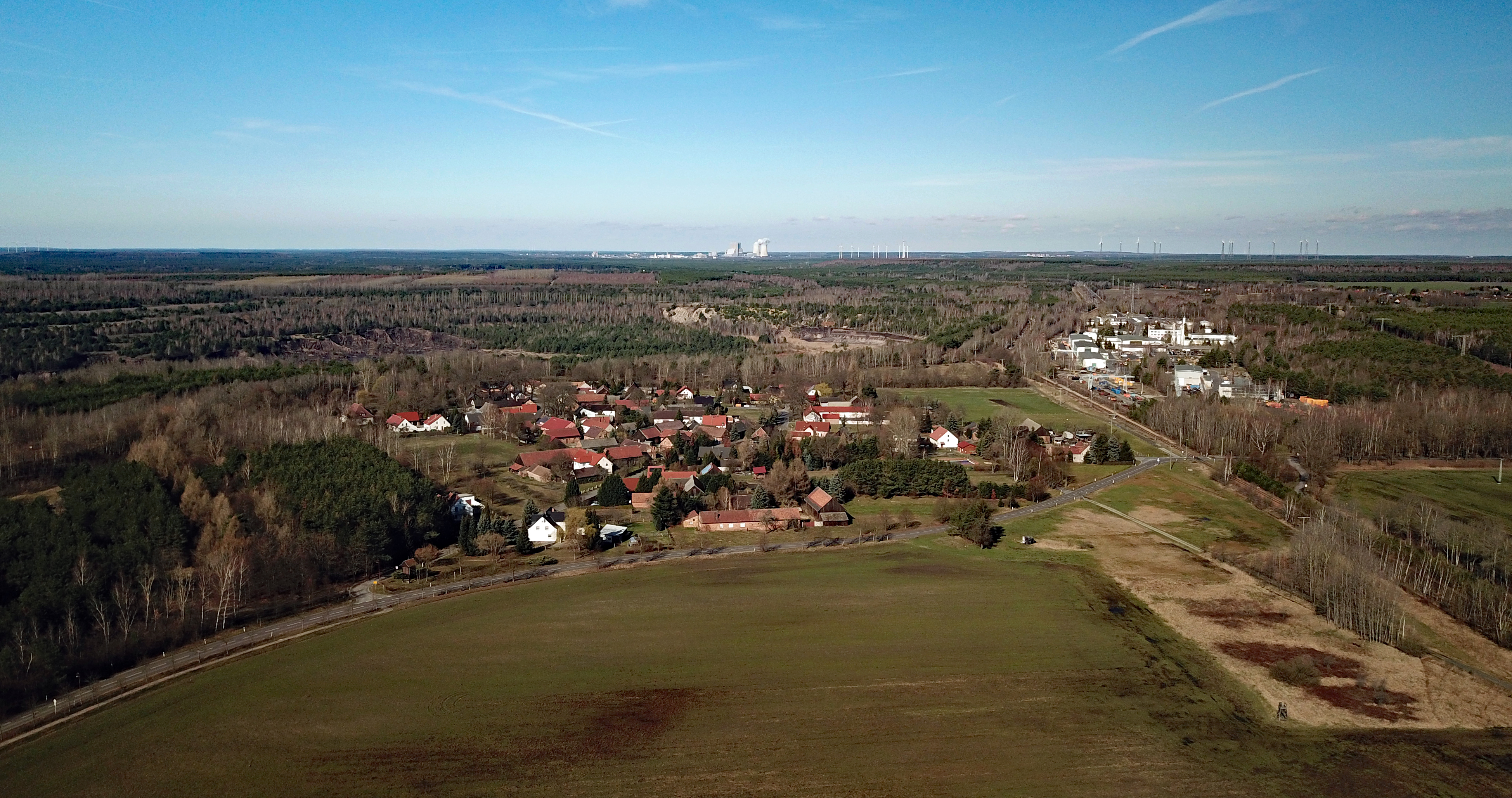 Mühlrose (Trebendorf, Saxony, Germany) Hornjoserbsce: Powětrowy wobraz Miłoraza